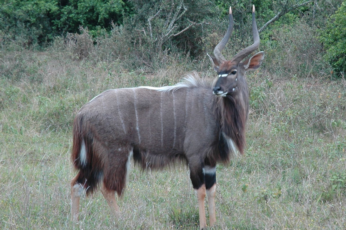 This is a male Nyala